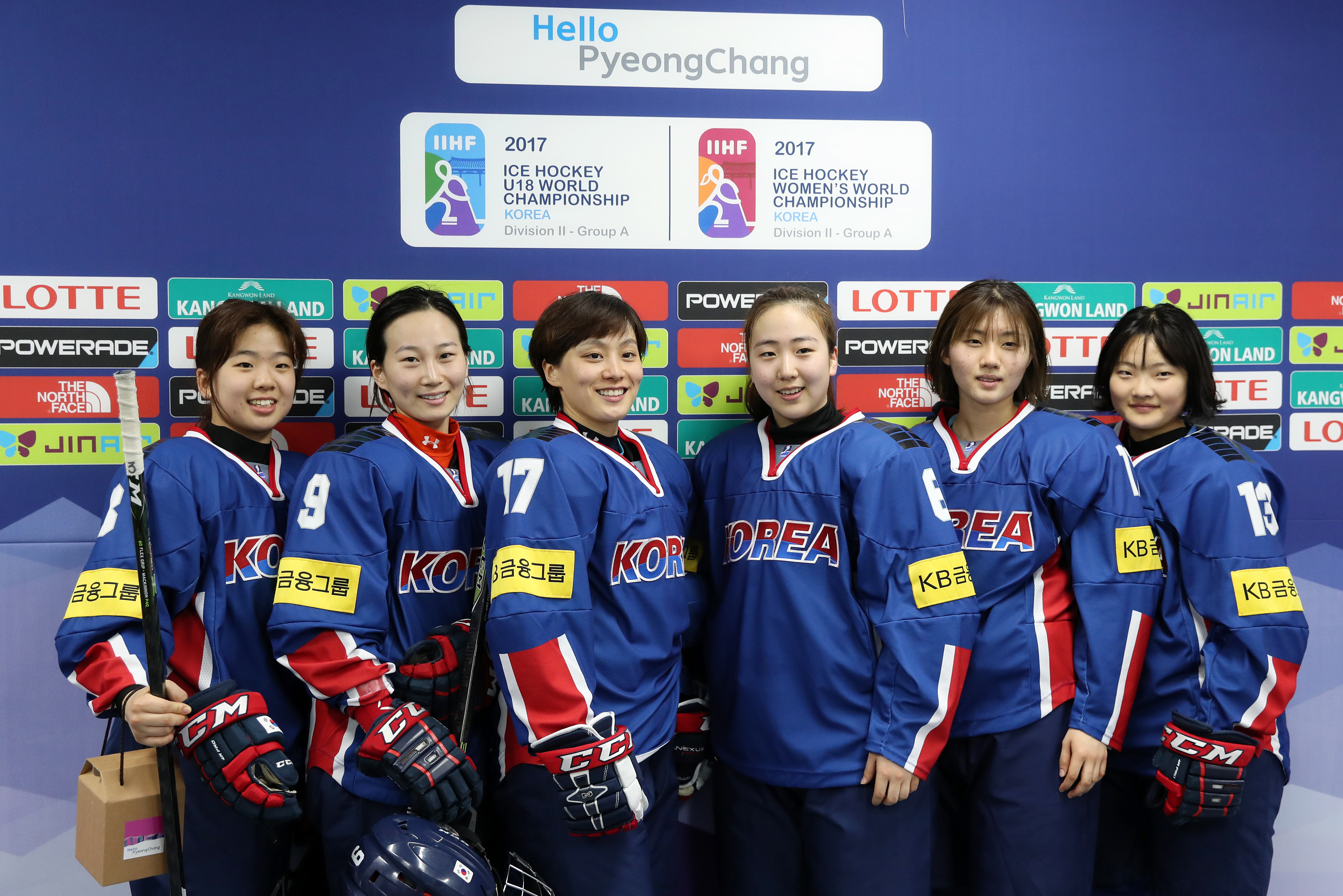 Members of the South Korean women's hockey team posing before their game against Australia. From left: Eom Su-yeon, Park Jong-ah, Han Soo-jin, Choi Yu-jung, Park Ye-eun, Lee Eun-ji IIHF Ice Hockey Women’s World Championship DIVⅡ Group A Korea vs Australia April 5, 2017 Kwandong Hockey Center, Gangneung-si, Gangwon-do Ministry of Culture, Sports and Tourism Korean Culture and Information Service ( Official Photographer : Jeon Han This official Republic of Korea photograph is being made available only for publication by news organizations and/or for personal printing by the subject(s) of the photograph. The photograph may not be manipulated in any way. Also, it may not be used in any type of commercial, advertisement, product or promotion that in any way suggests approval or endorsement from the government of the Republic of Korea.---------------------------------------------------- 2017 IIHF(국제아이스하키연맹) 아이스하키 여자 세계선수권대회 디비전Ⅱ 그룹 A한국 대 호주2017-04-05관동하키센터문화체육관광부해외문화홍보원코리아넷전한